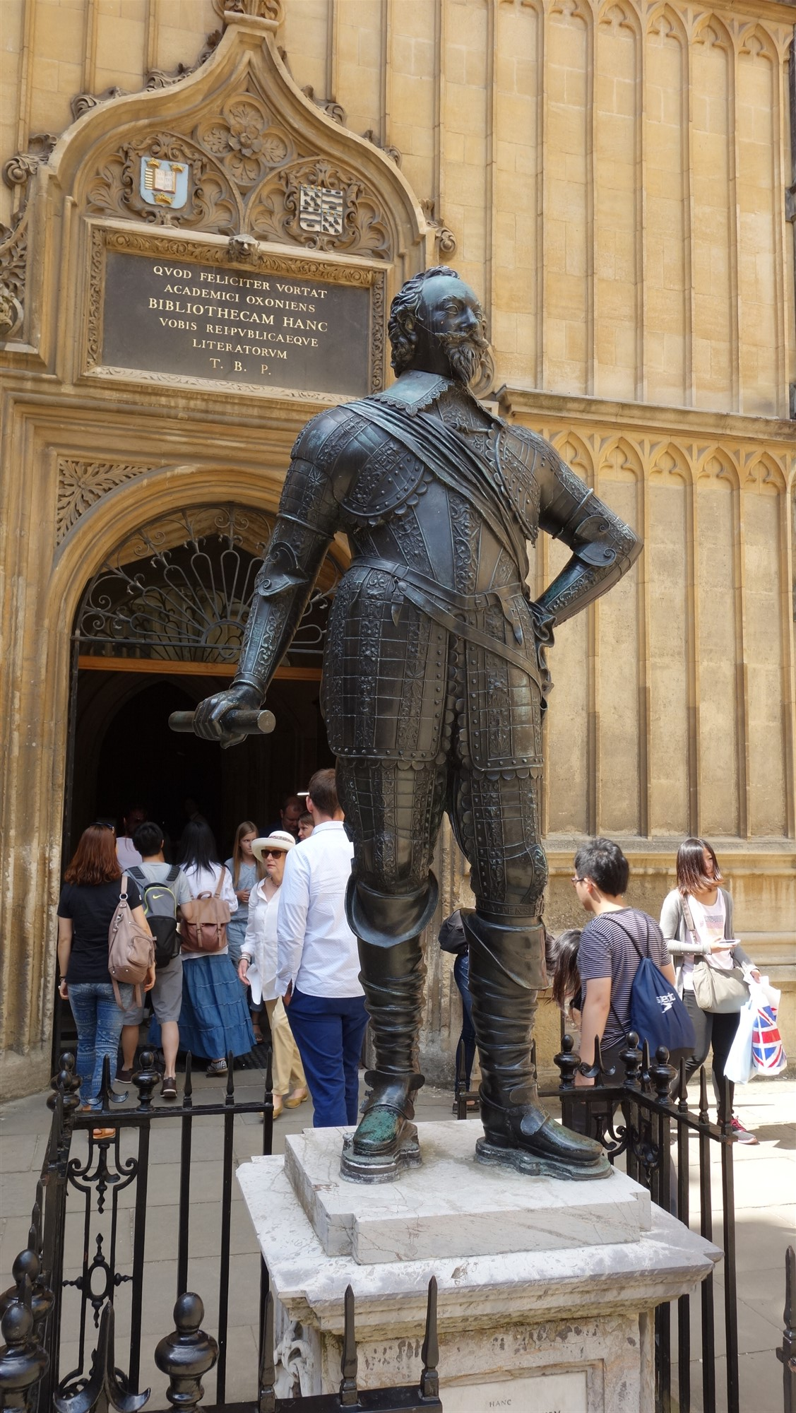 William Herbert (3rd Earl Pembroke) Statue at Oxford University, England